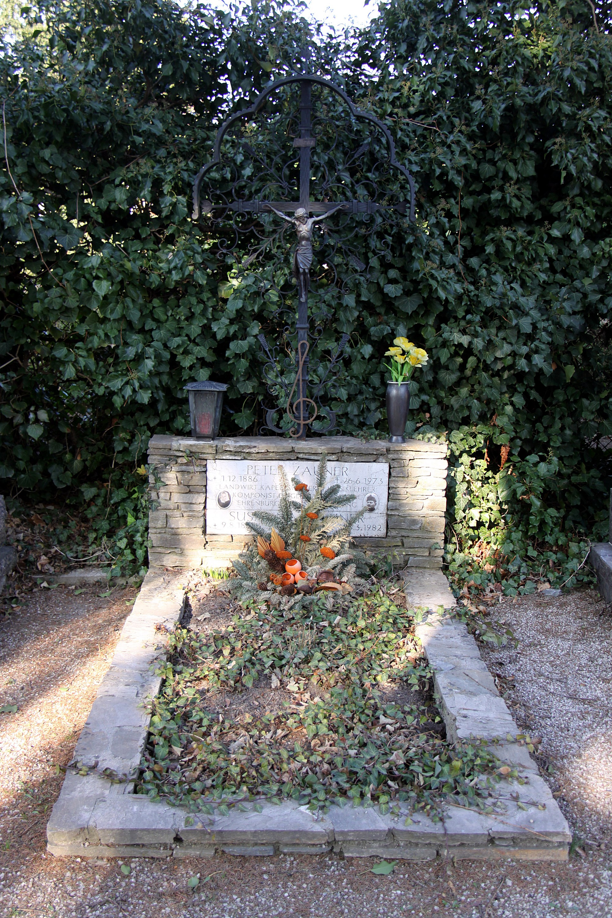 Honour grave composer Peter Zauner (* 1886-12-01, † 1973-06-26) in the cemetry of Pöttsching.